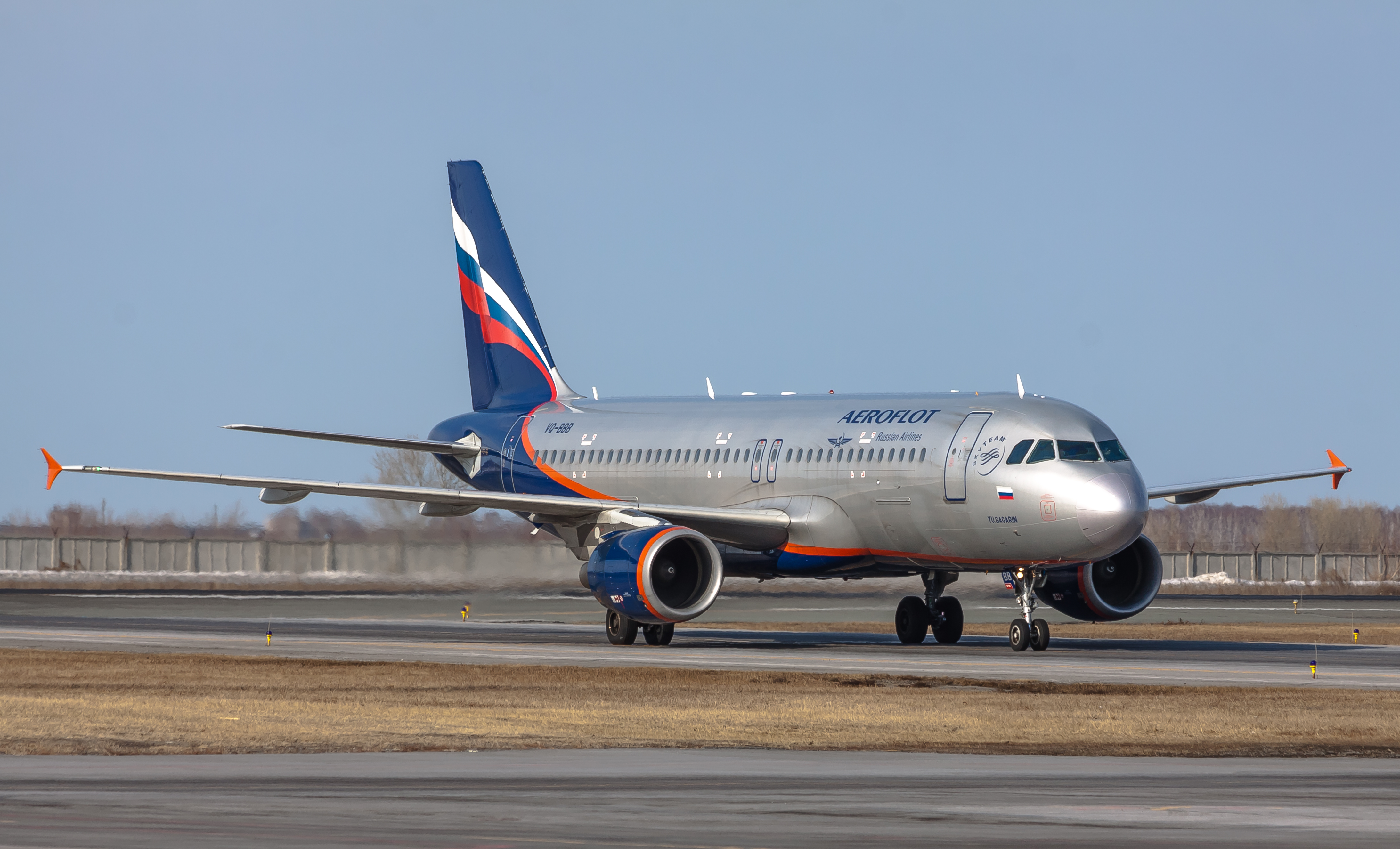 Aeroflot A320-214 from Moscow